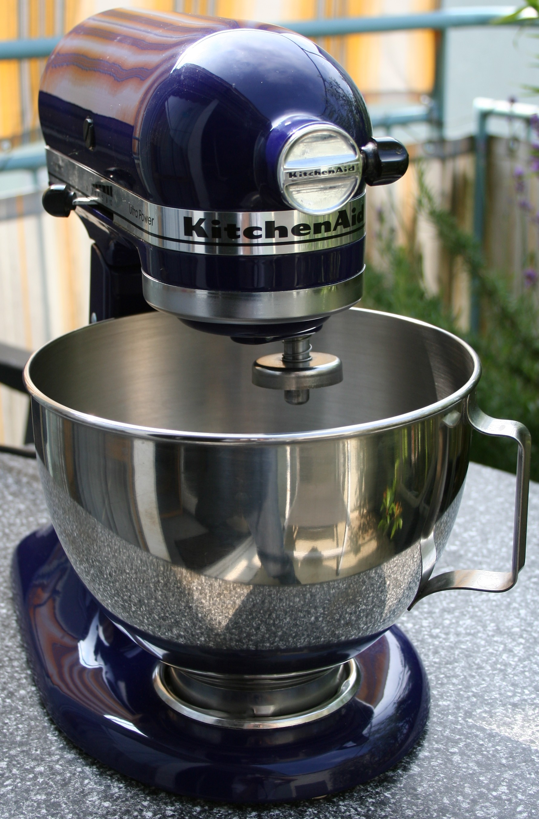 Food processor KitchenAid Ultra Power with mixing bowl